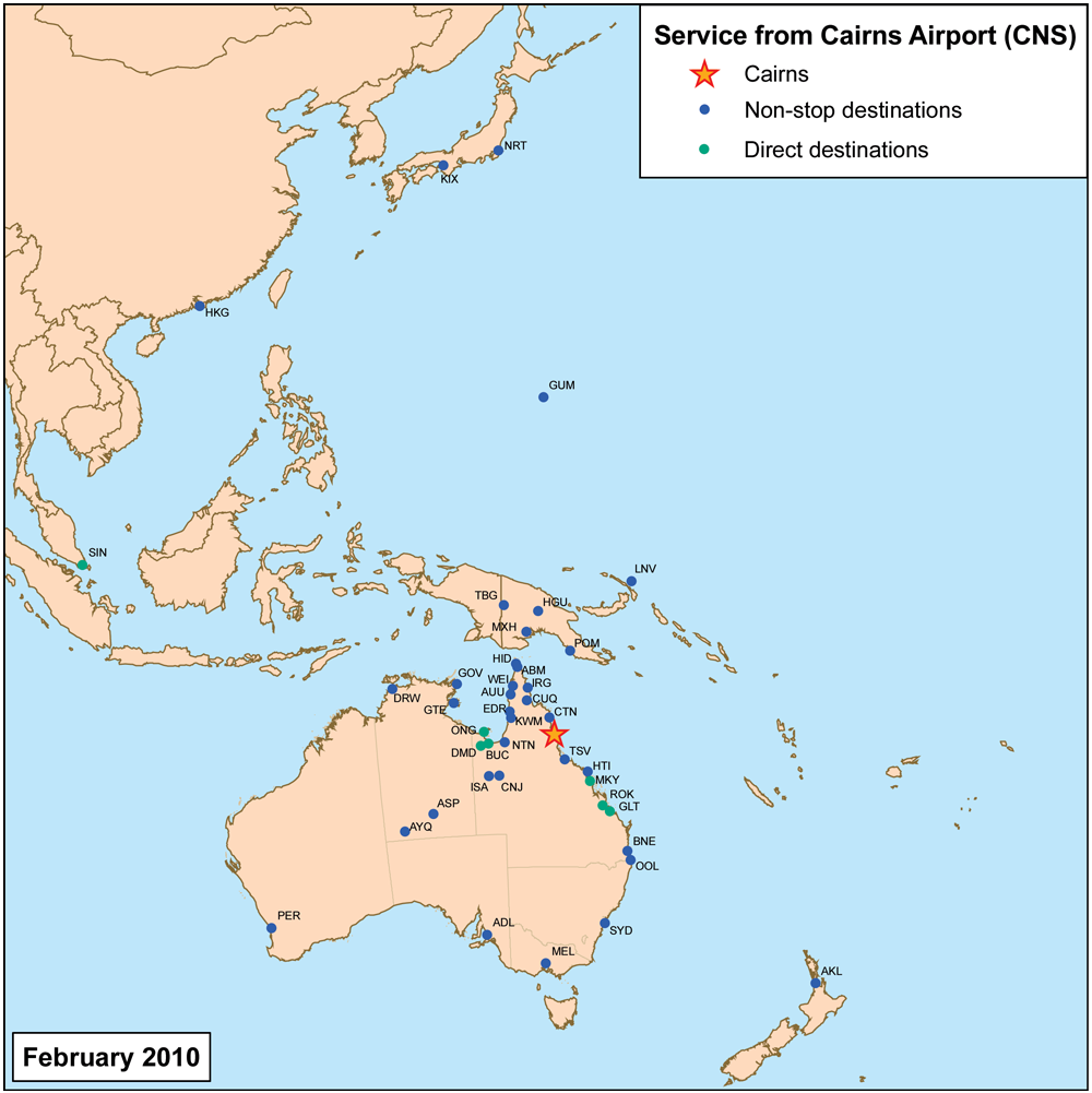 This is a route map for Cairns International Airport as of February 2010. Map is an Azimuthal equidistant projection centered on the airport so straight lines from Cairns are along great circle routes. Sources: Official site and individual airline sites.